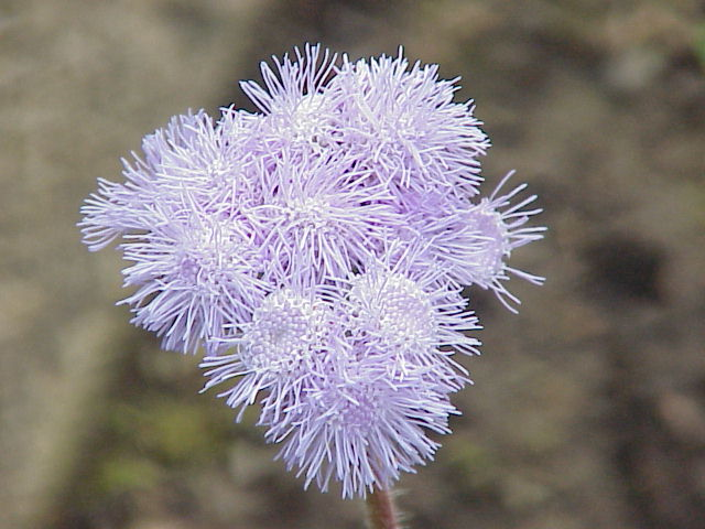 Species: Ageratum houstonianum Family: Compositae Image No. 2